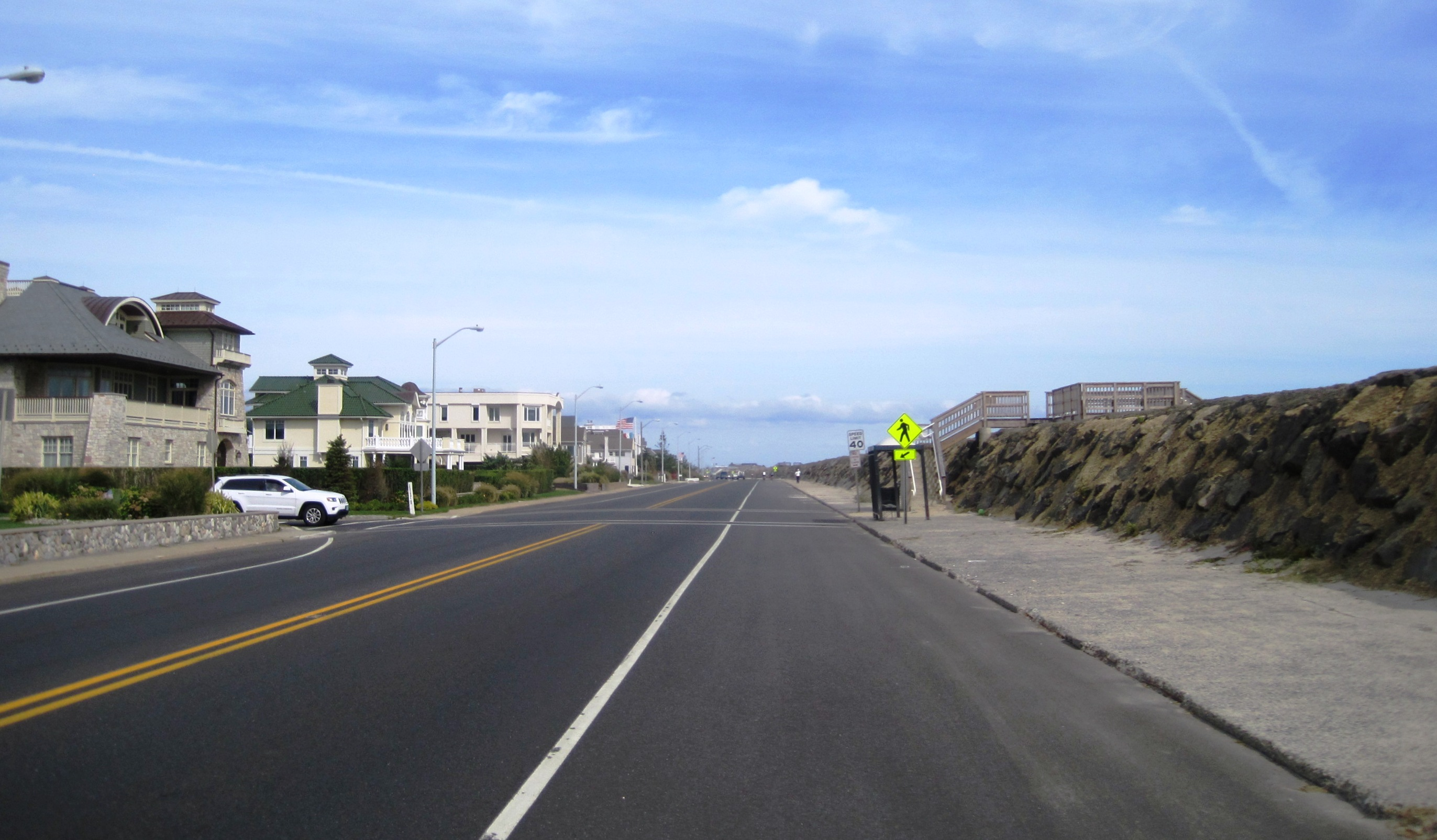 Photo showing Galilee, New Jersey, an unincorporated community within Monmouth Beach. Photo taken along northbound New Jersey Route 36 at Central Avenue.